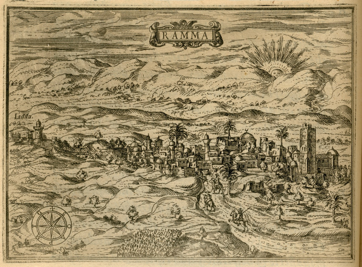 Jean Zuallart. Il devotissimo viaggio di Gerusalemme fatto, & descritto in sei libri dal Sig. Giovanni Zuallardo, Cavaliero del Santiss Sepolcro di N.S. l'anno 1586, Rome, F. Zanetti & Gia Ruffinelli, MDLXXXVII (1587)